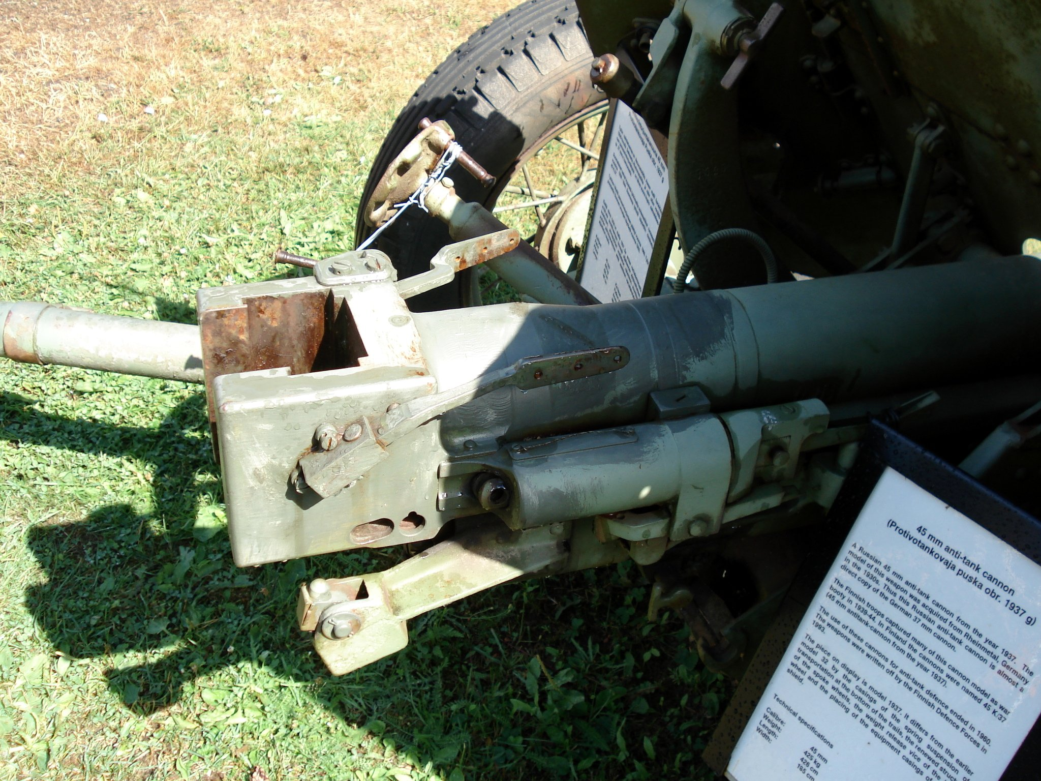 Soviet 45 mm anti-tank gun M1937, displayed in Finnish Tank Museum (Panssarimuseo) in Parola. Photo taken on July 14, 2006.